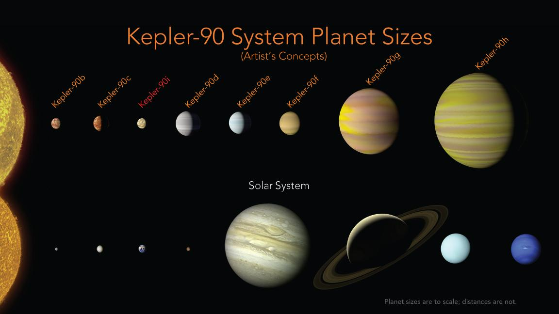 PIA22193: Kepler-90 System Compared to Our Solar System (Artist's Concept) With the discovery of an eighth planet, NASA's Kepler-90 system is the first to tie with our solar system in number of planets. This is an artist's concept compared with our own solar system. Our solar system now is tied for most number of planets around a single star, with the recent discovery of an eighth planet circling Kepler-90, a Sun-like star 2,545 light years from Earth. The planet was discovered in data from NASA's Kepler Space Telescope. This artist's concept depicts the Kepler-90 system compared with our own solar system. The newly-discovered Kepler-90i -- a sizzling hot, rocky planet that orbits its star once every 14.4 days -- was found using machine learning from Google. Machine learning is an approach to artificial intelligence in which computers "learn." In this case, computers learned to identify planets by finding in Kepler data instances where the telescope recorded changes in starlight caused by planets beyond our solar system, known as exoplanets. NASA Ames manages the Kepler and K2 missions for NASA's Science Mission Directorate. JPL managed Kepler mission development. Ball Aerospace & Technologies Corporation operates the flight system with support from the Laboratory for Atmospheric and Space Physics at the University of Colorado in Boulder. For more information on the Kepler and the K2 mission, visit For more information about exoplanets, visit